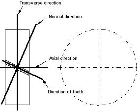 Principal directions